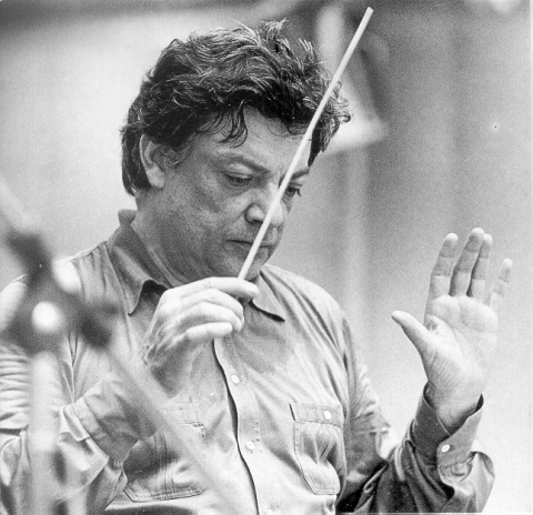 The Italian composer and conductor Bruno Maderna in 1963